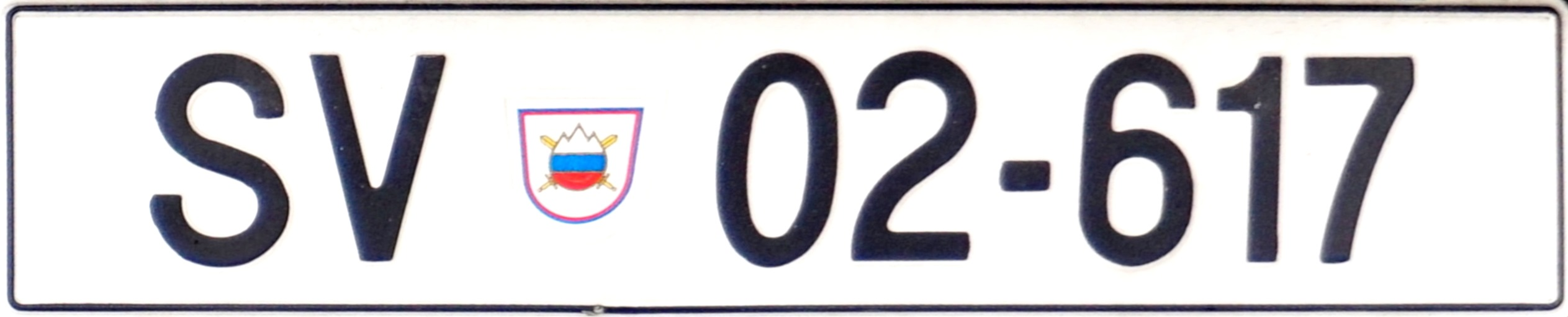 License plate of a civilian vehicle owned by Slovenian Army. The actual military vehicles have dark-greenish-brown plates with white letters.